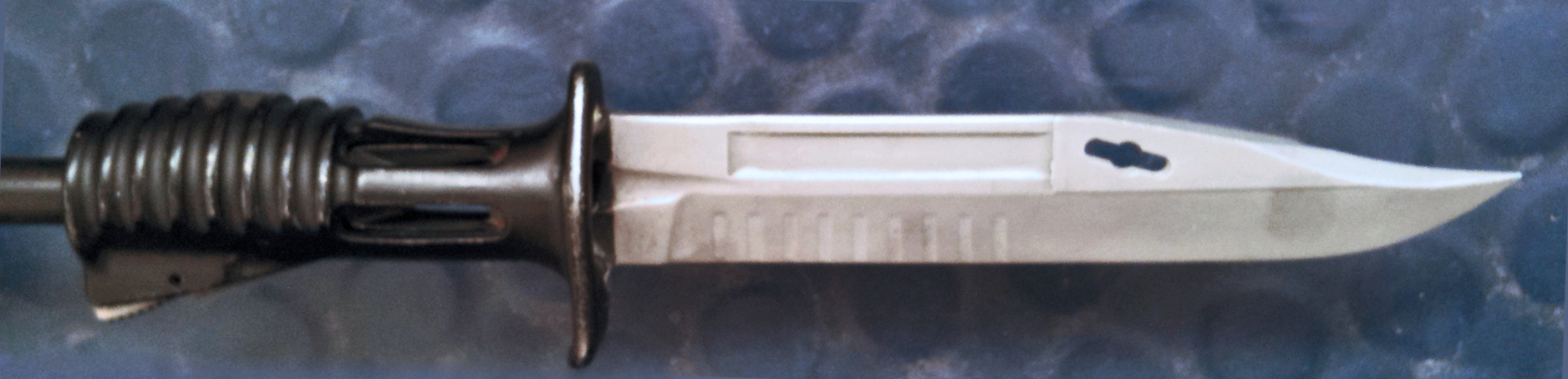 A Royal Navy bayonet, attached to an L85A2 rifle. Note the barrel to the left.